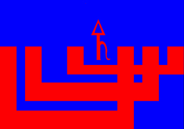 A more accurate rendition of the Seal--due to fitting the jpg to the cropping effect of the frame. I uploaded the original some years back and never knew about the cropping.